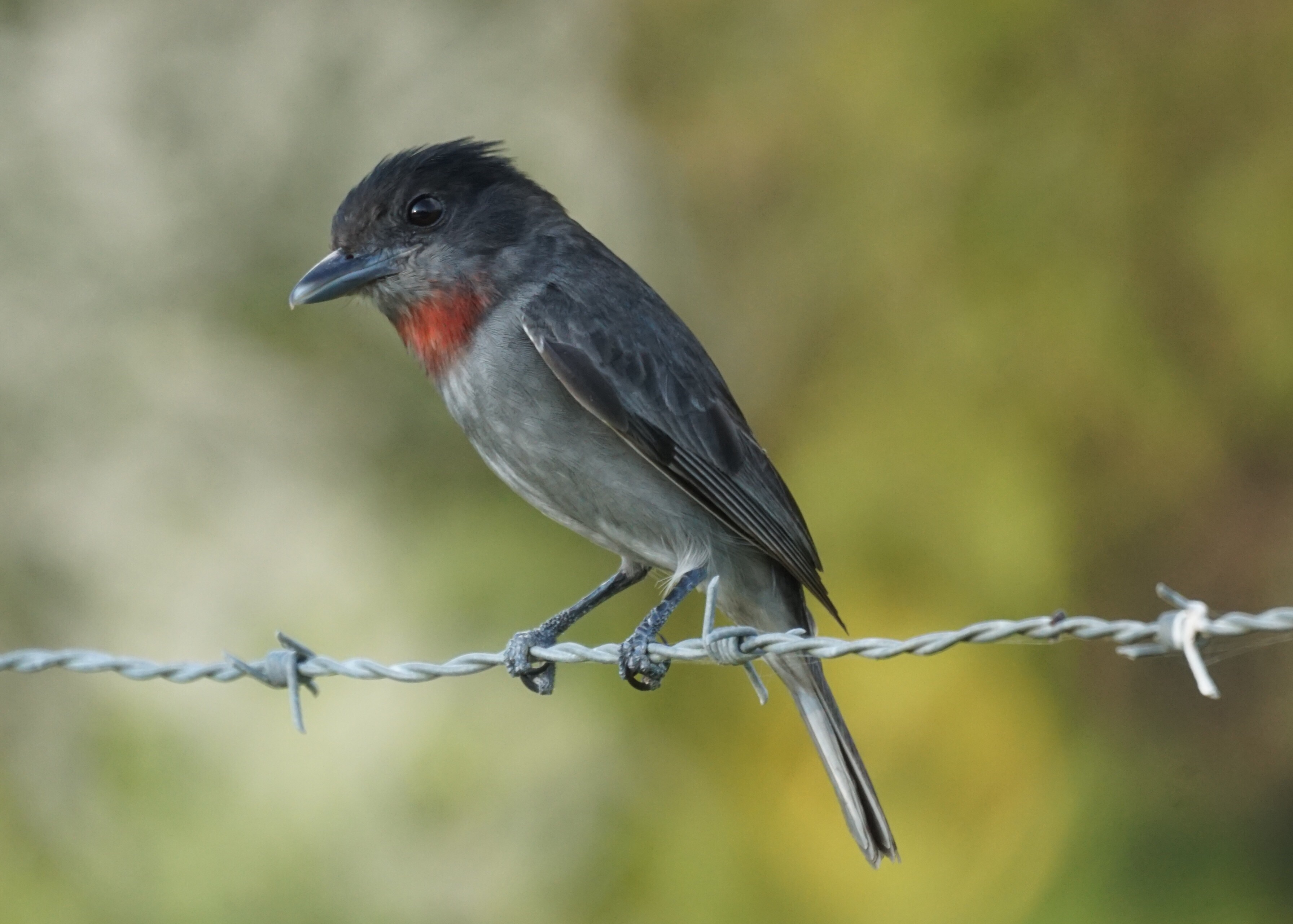 Rose-throated Becard